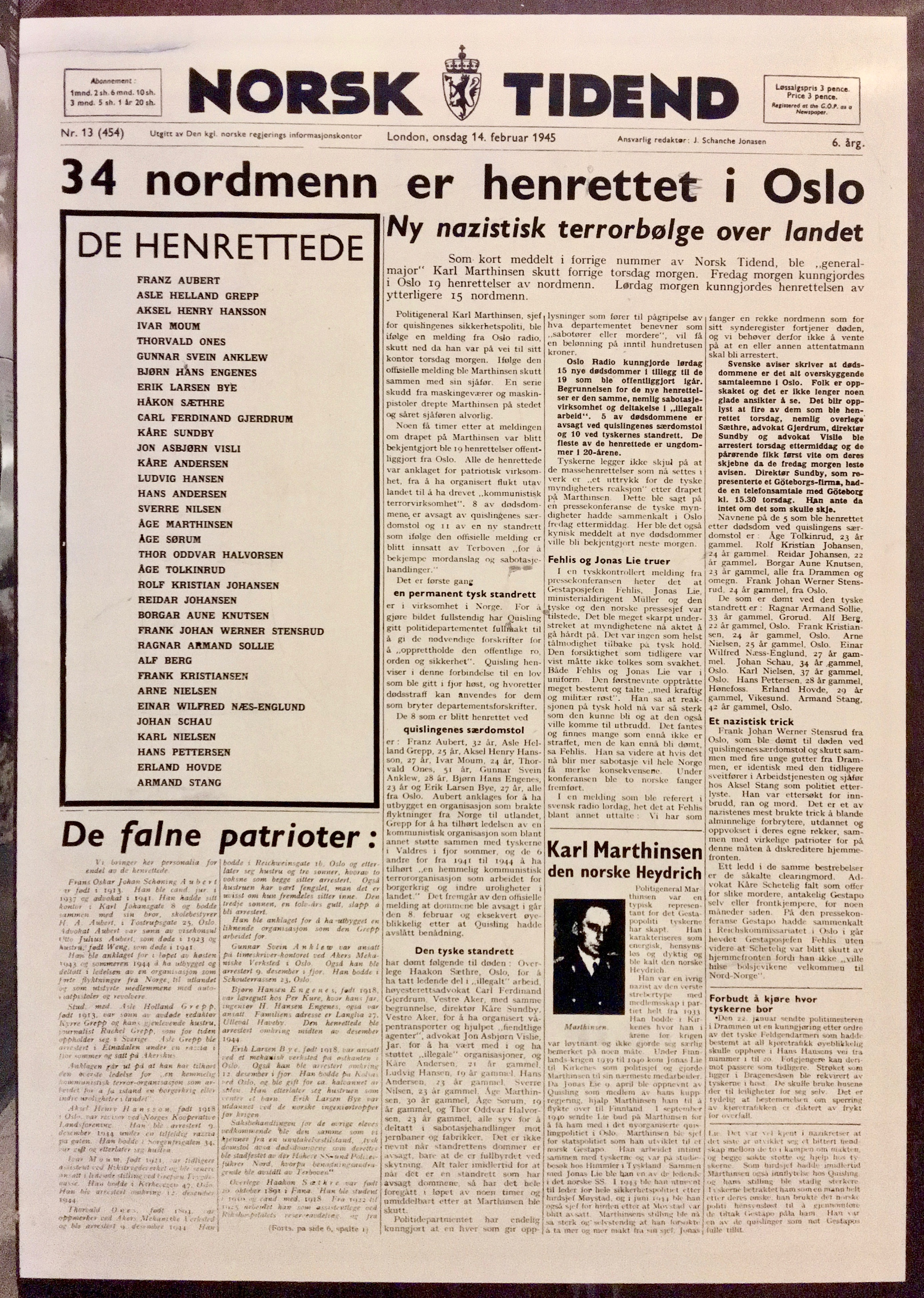 Norsk Tidend, Norwegian newspaper in London 1945-02-14, on the retaliation after the assasination of police general Karl Marthinsen. (Norsk Tidend, utgitt av Den kgl. norske regjerings informasjonskontor i London onsdag 14. februar 1945: "34 nordmenn er henrettet i Oslo. Ny nazistisk terrorbølge over landet" etter at general-major Karl Marthinsen ble skutt 8. februar) Lightened, stretched version of photo taken on 2017-11-30 of the exhibition at Norway's WW2 Resistance Museum (Hjemmefrontmuseet) at Akershus fortress in Oslo, Norway.